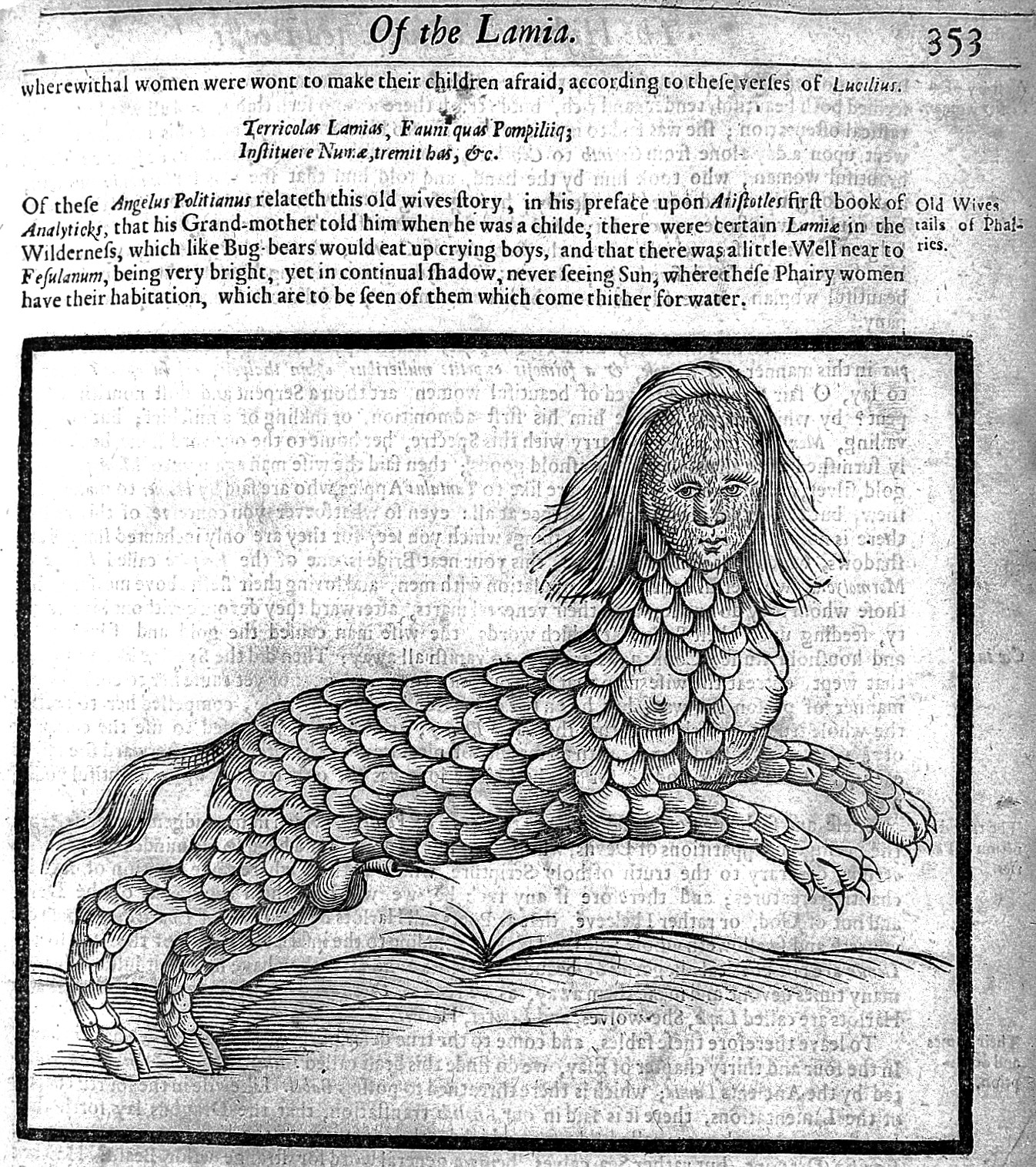 A lamia; a monster capable of assuming a woman's form, who was said to devour human beings or suck their blood; a vampire; a sorceress; a witch. Rare Books Keywords: mythical creatures; Edward Topsell